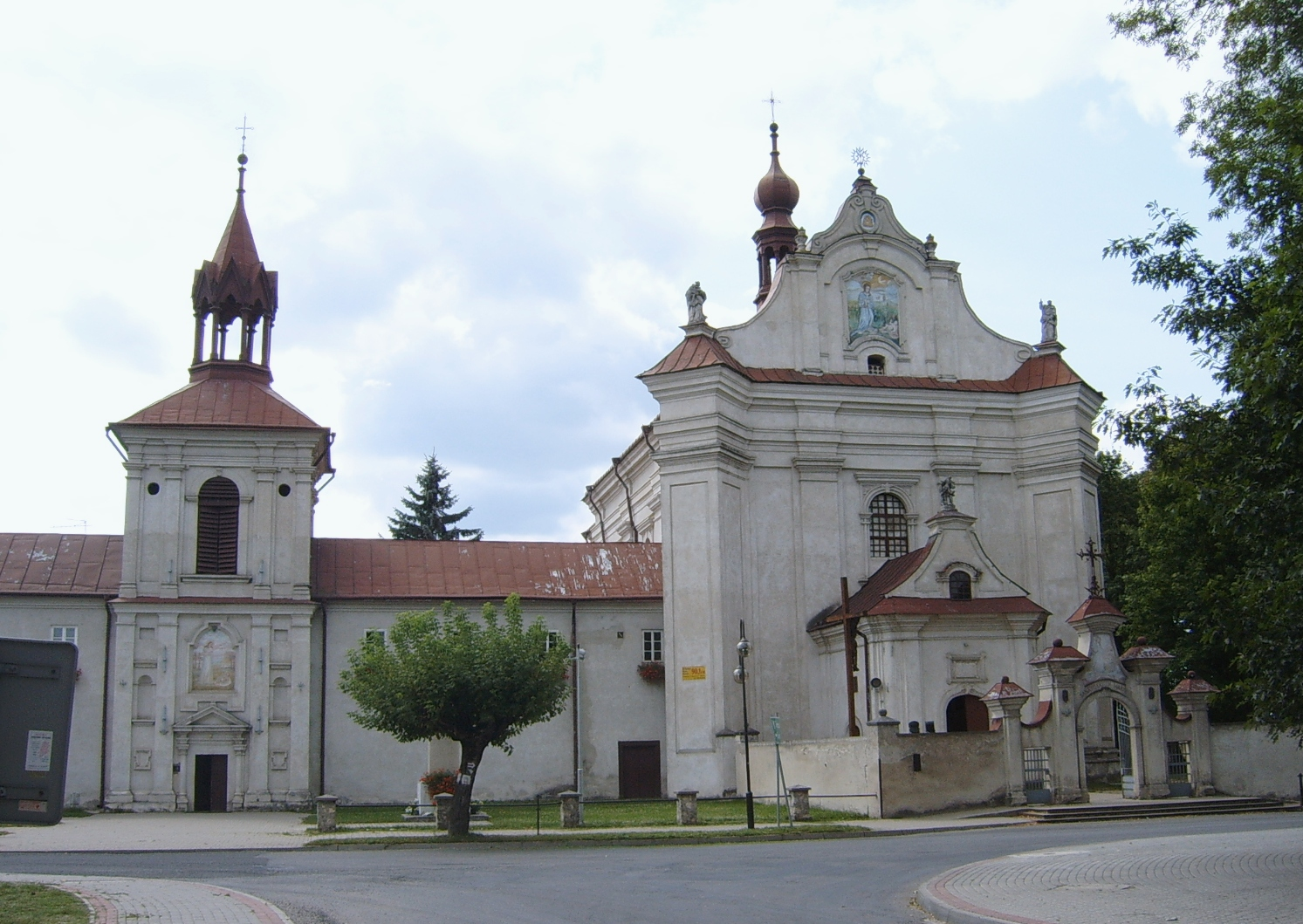 Blessed Virgin Mary church in Sanctuary in Krasnobród